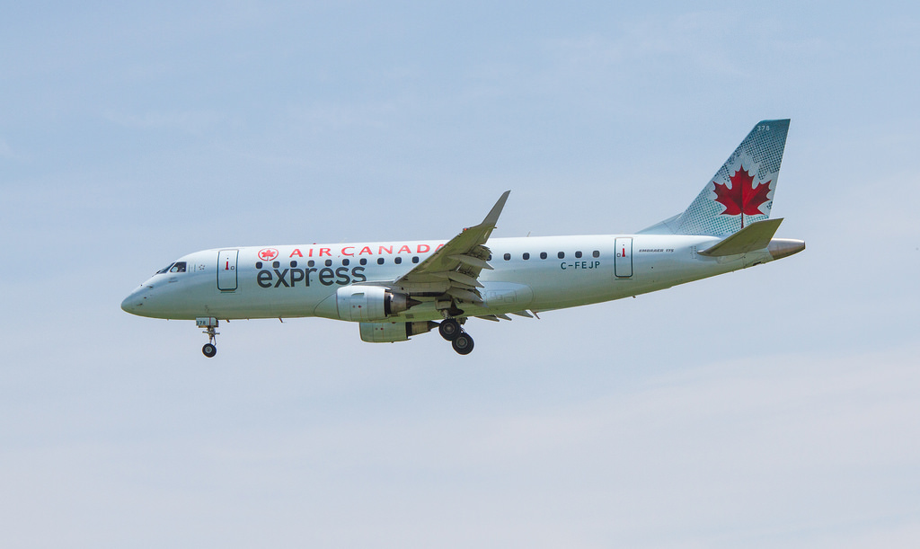 Air Canada Express Embraer 175 C-FEJP